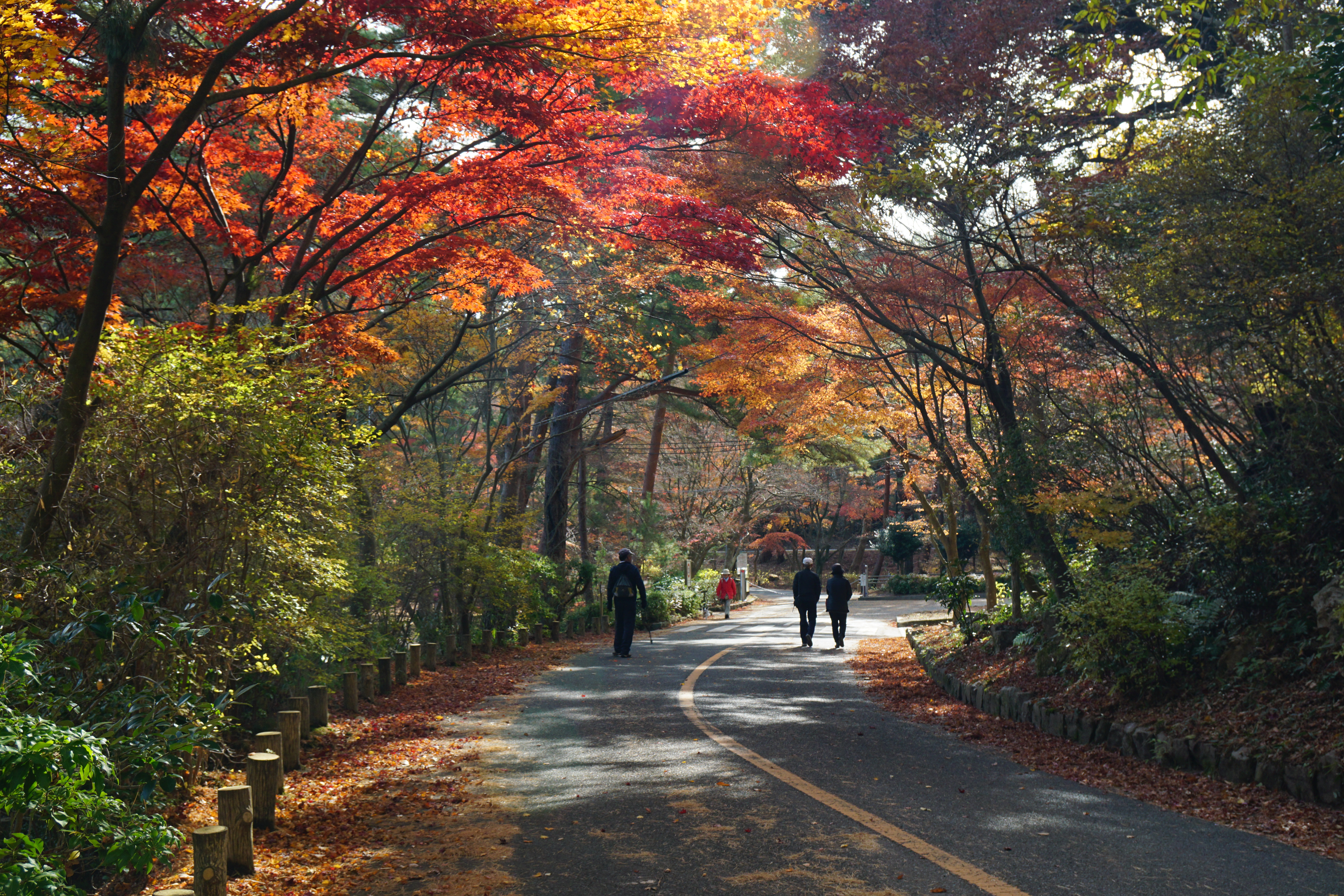 Futatabi Park in Kobe, Hyogo prefecture, Japan